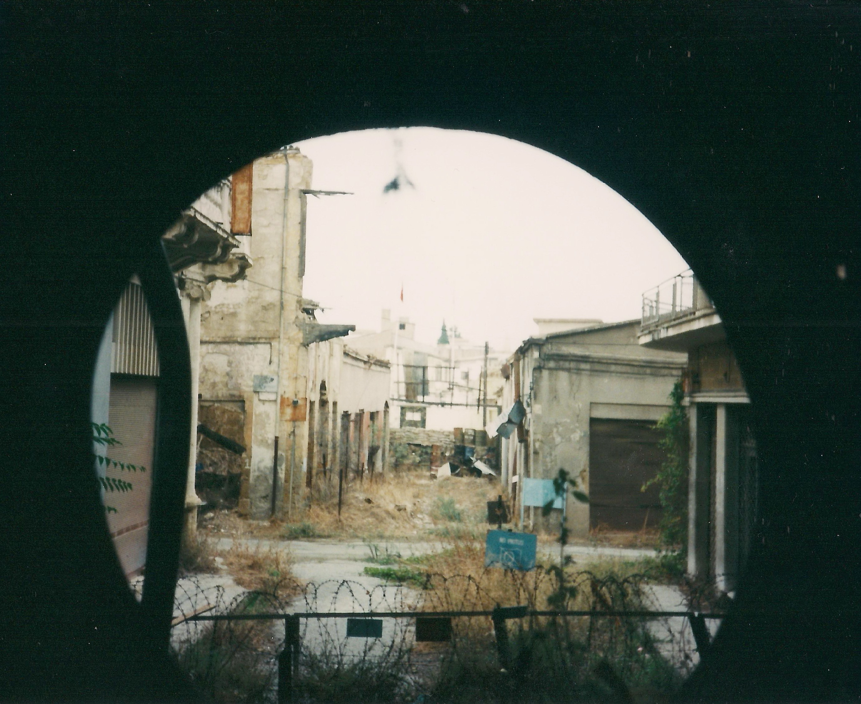 The "Green Line" in Ledra Street, Nicosia, Cyprus, in the year 1997